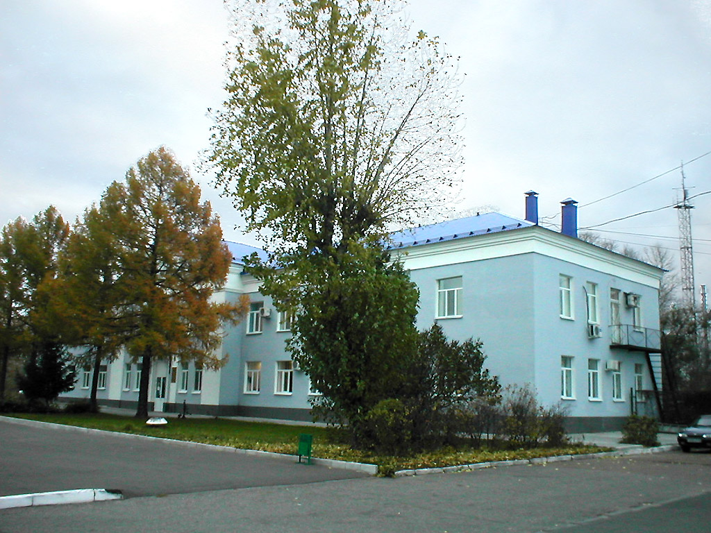 office of Tatflot shipping company River terminal square in Kazan